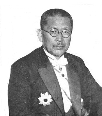 Kurahei Yuasa